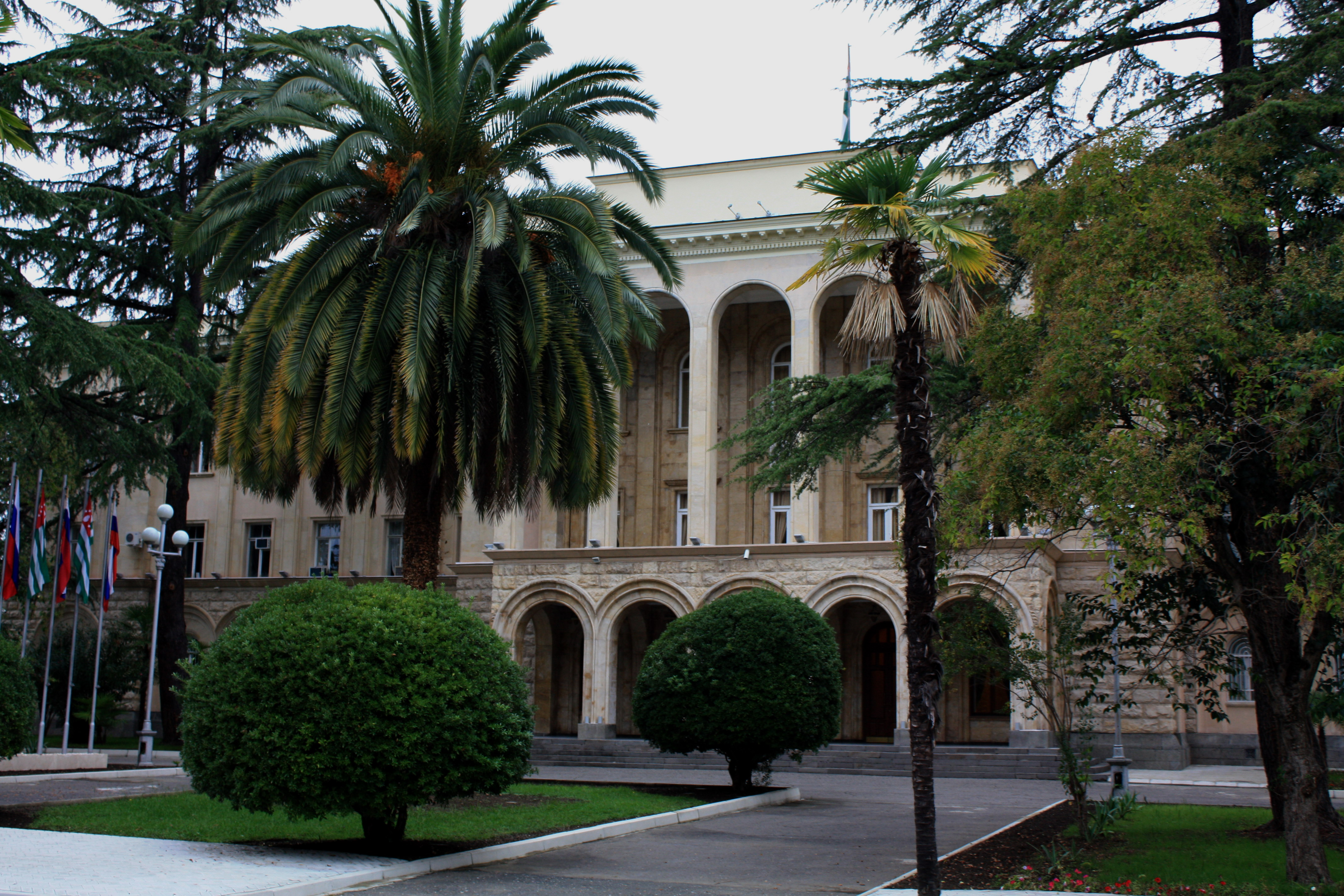 Government building, Sukhumi, Abkhazia